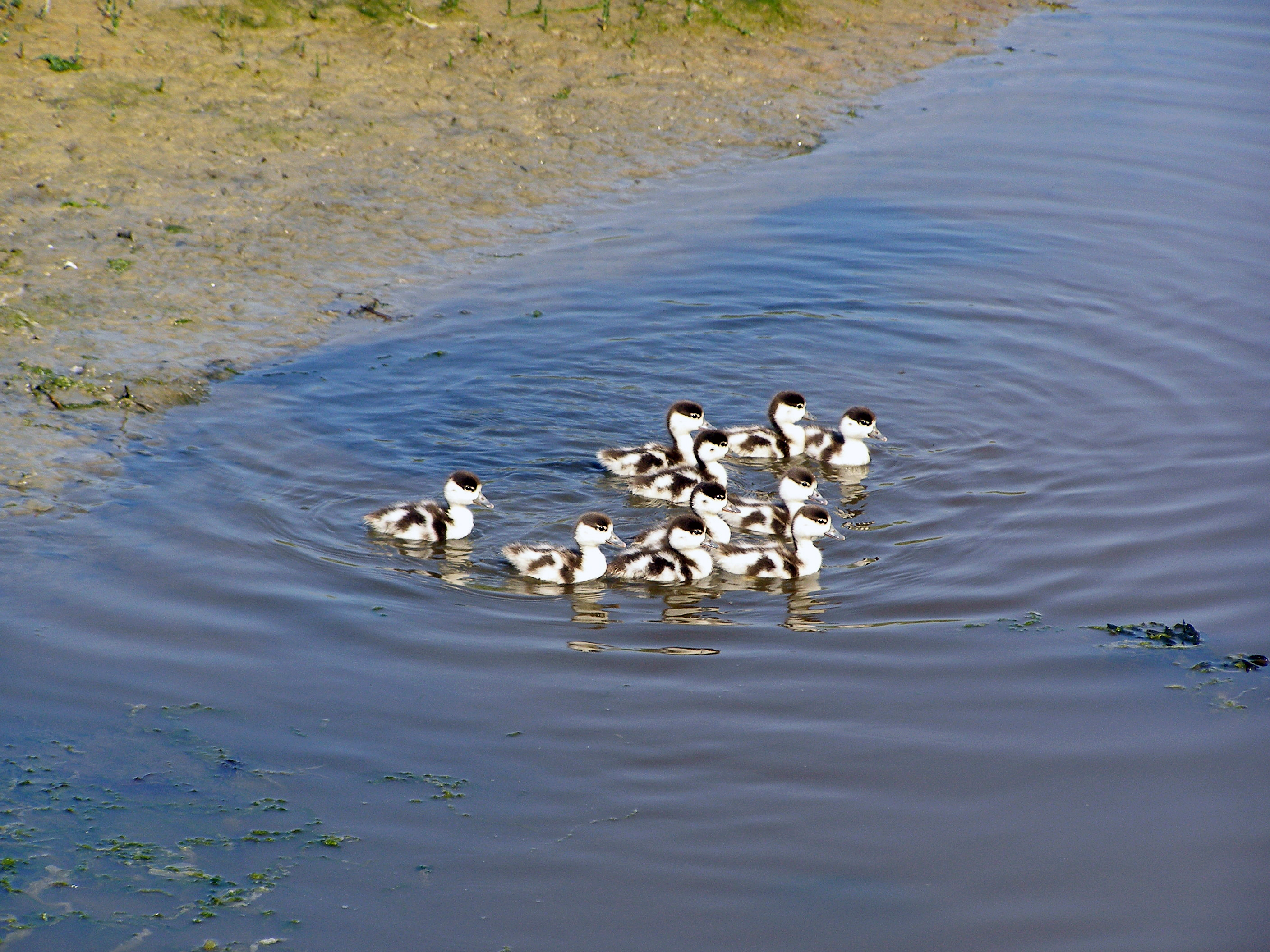 Young Common Shelducks (Tadorna tadorna), Borkum, Germany